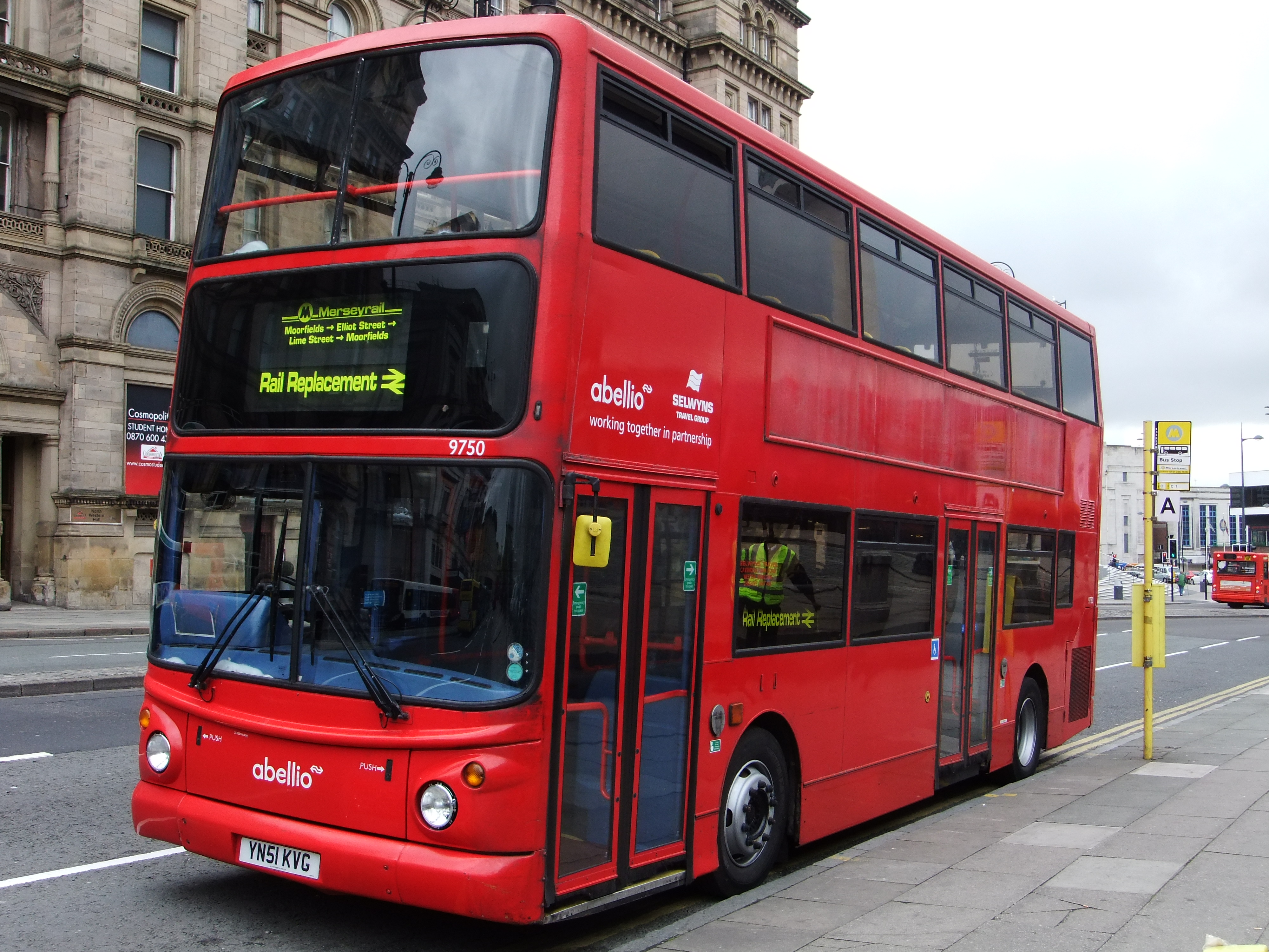 Rail replacement bus service at Lime Street, Liverpool, England. In operation due to Liverpool Central railway station being closed for refurbishment. This bus YN51KVG previously worked route 3 to Crystal Palace in London.